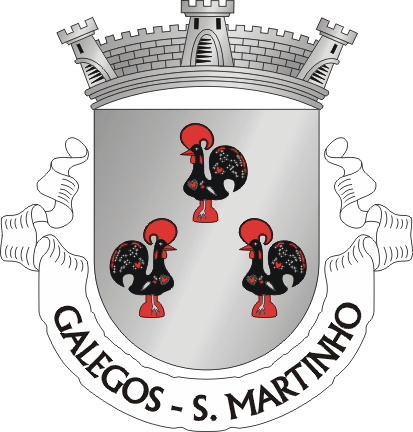 Crest of Galegos (São Martinho), a parish in the municipality of Barcelos (Portugal)